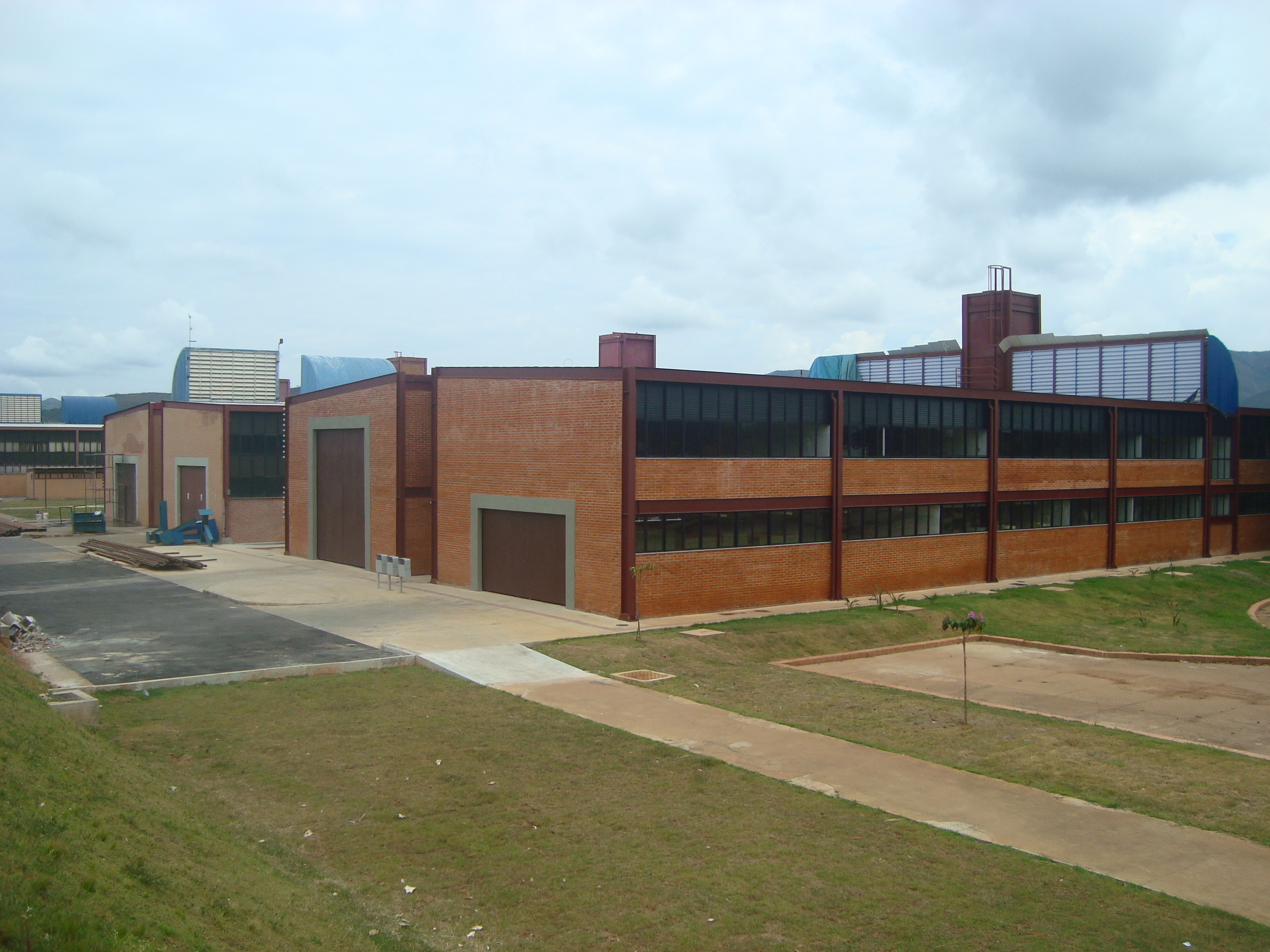 Ouro Preto school of mines laboratories